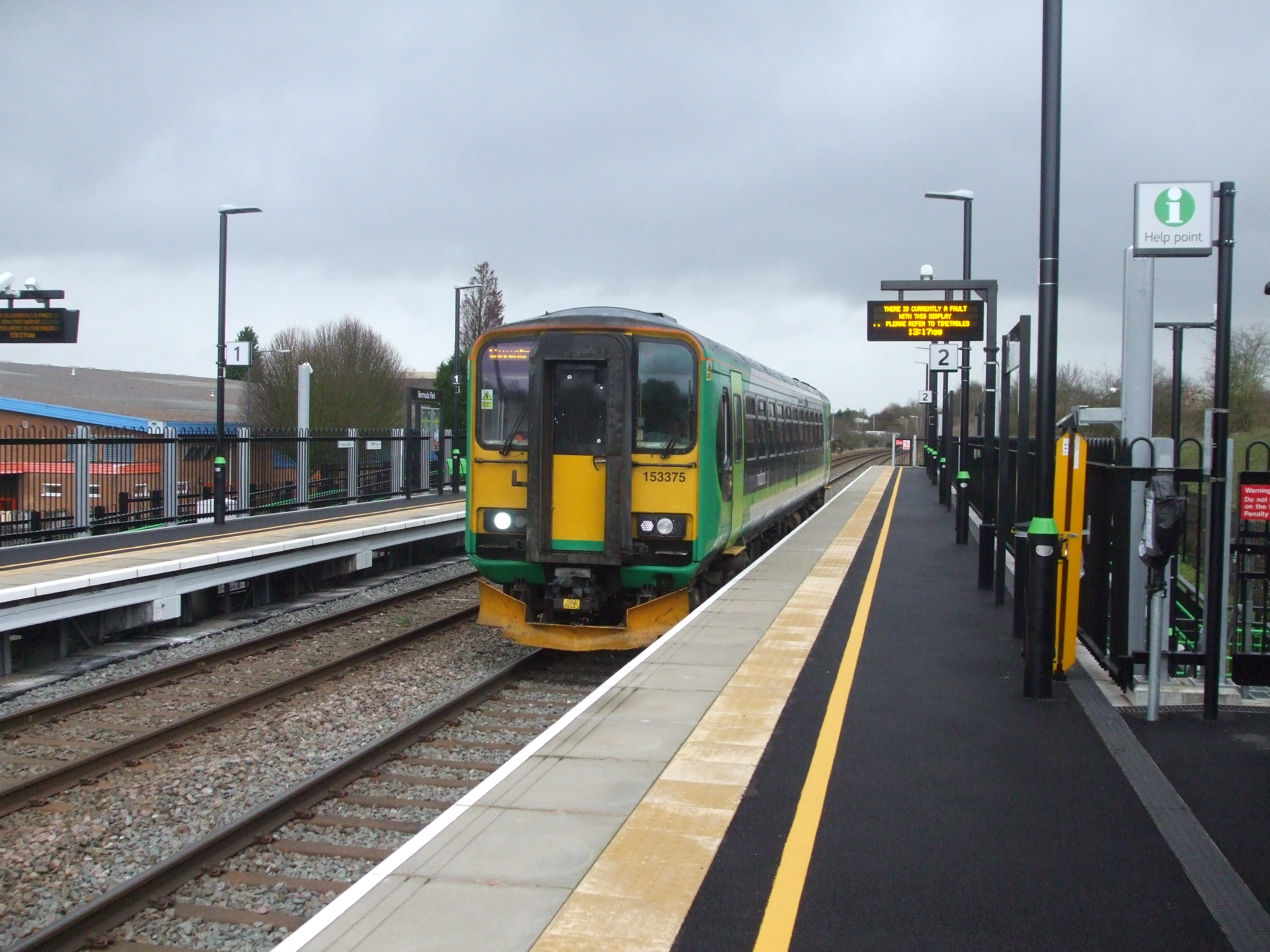 Bermuda Park station in January 2016, soon after opening. Class 153 unit 153375 calls with a Coventry service.